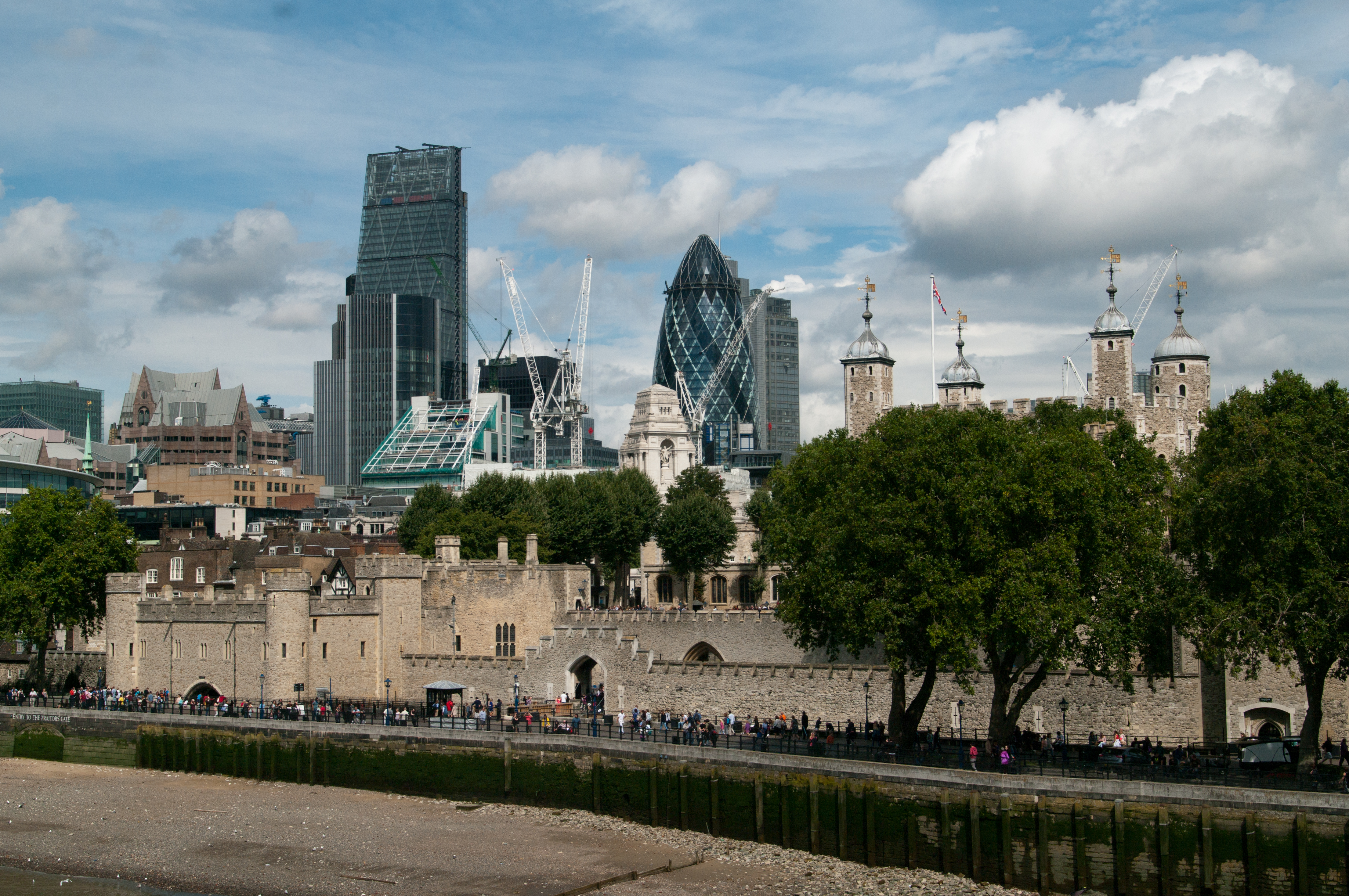 City of London Skyline with Tower of London